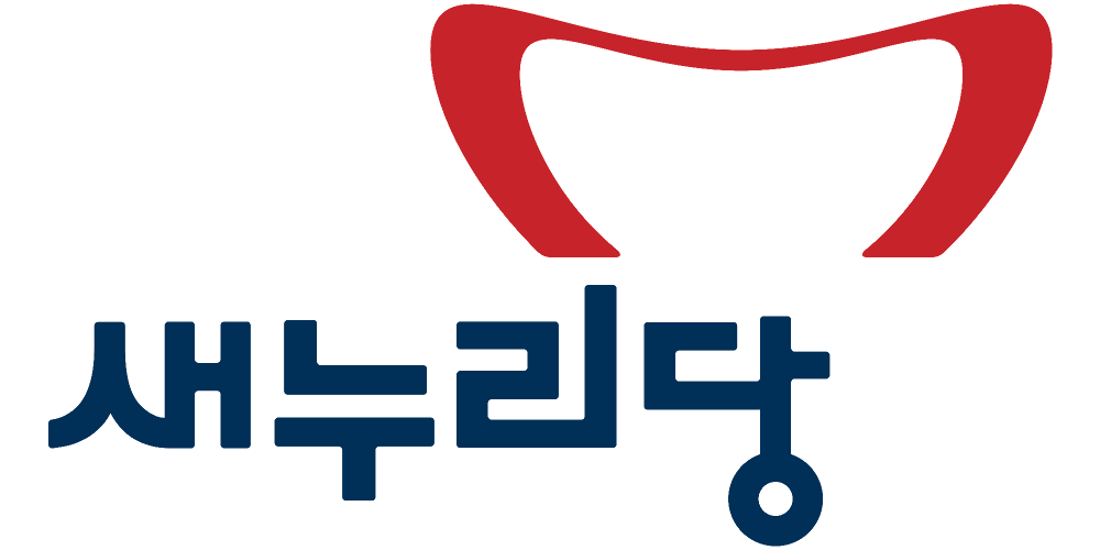 Logotype of Saenuri Party.